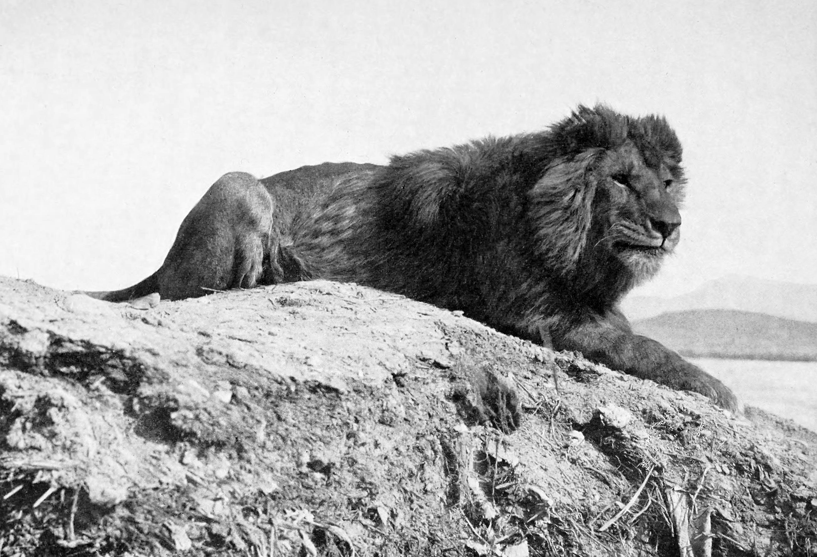 A Barbary lion (Panthera leo leo) from Algeria. Photographed by Sir Alfred Edward Pease.